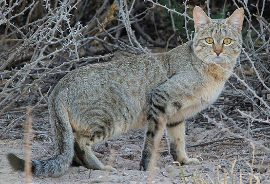 African Wild Cat